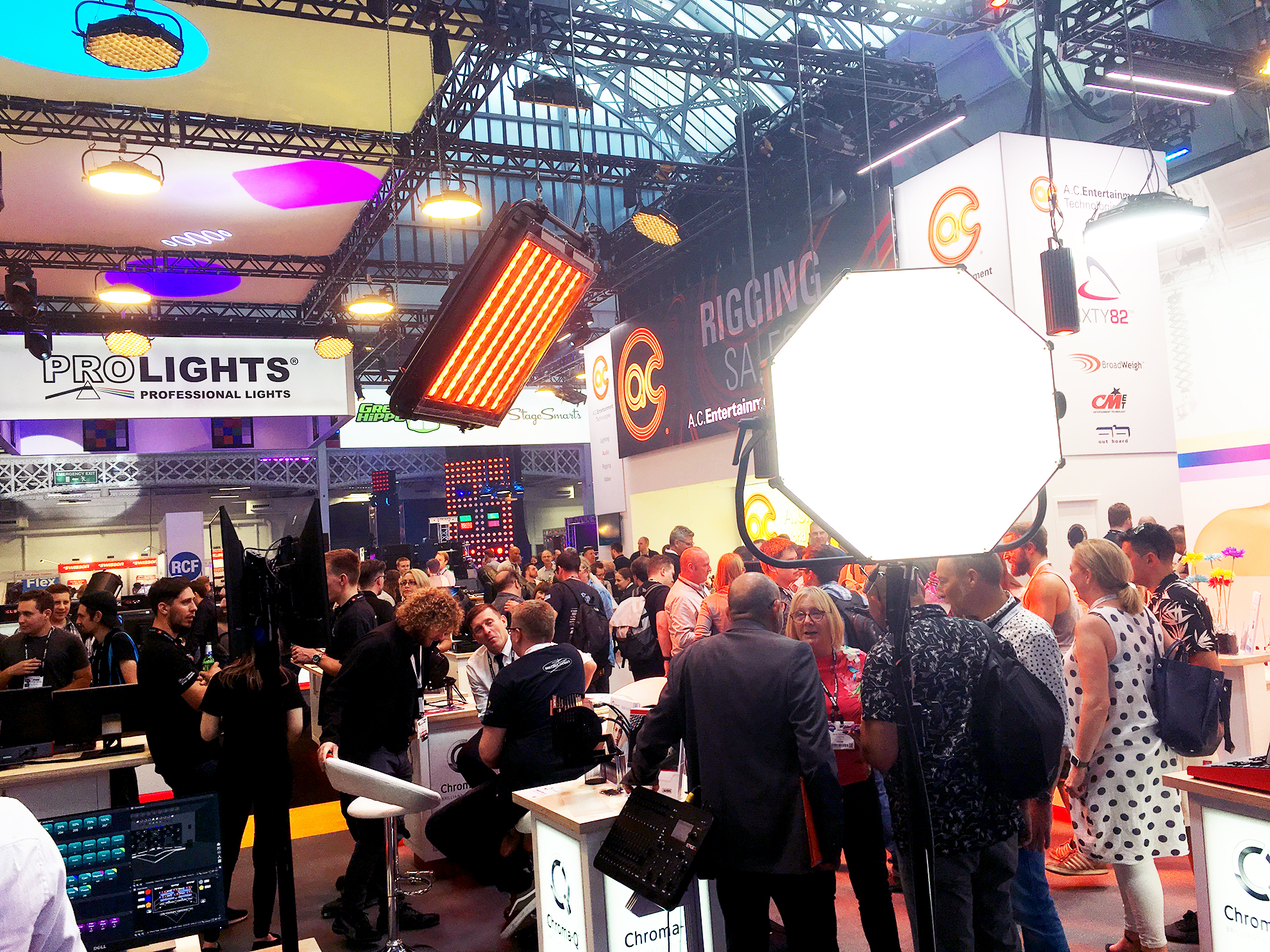 A crowded show floor at PLASA Show 2018